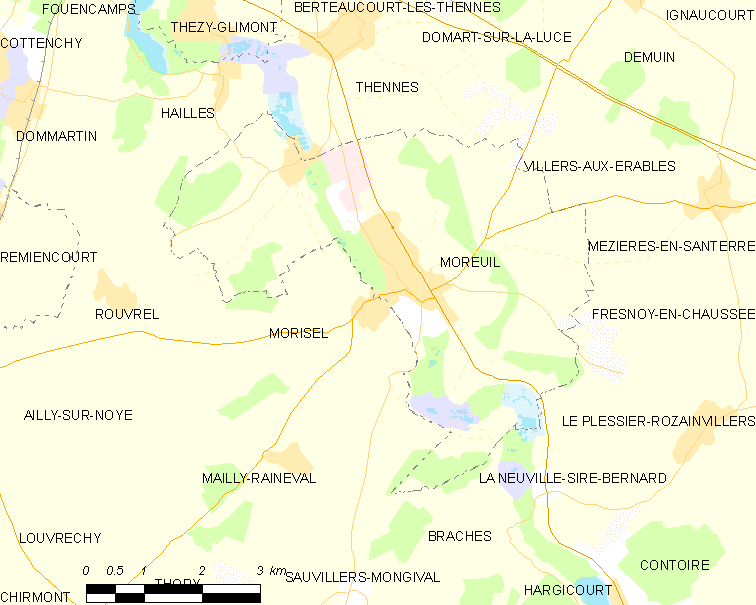 Map of French municipality Moreuil